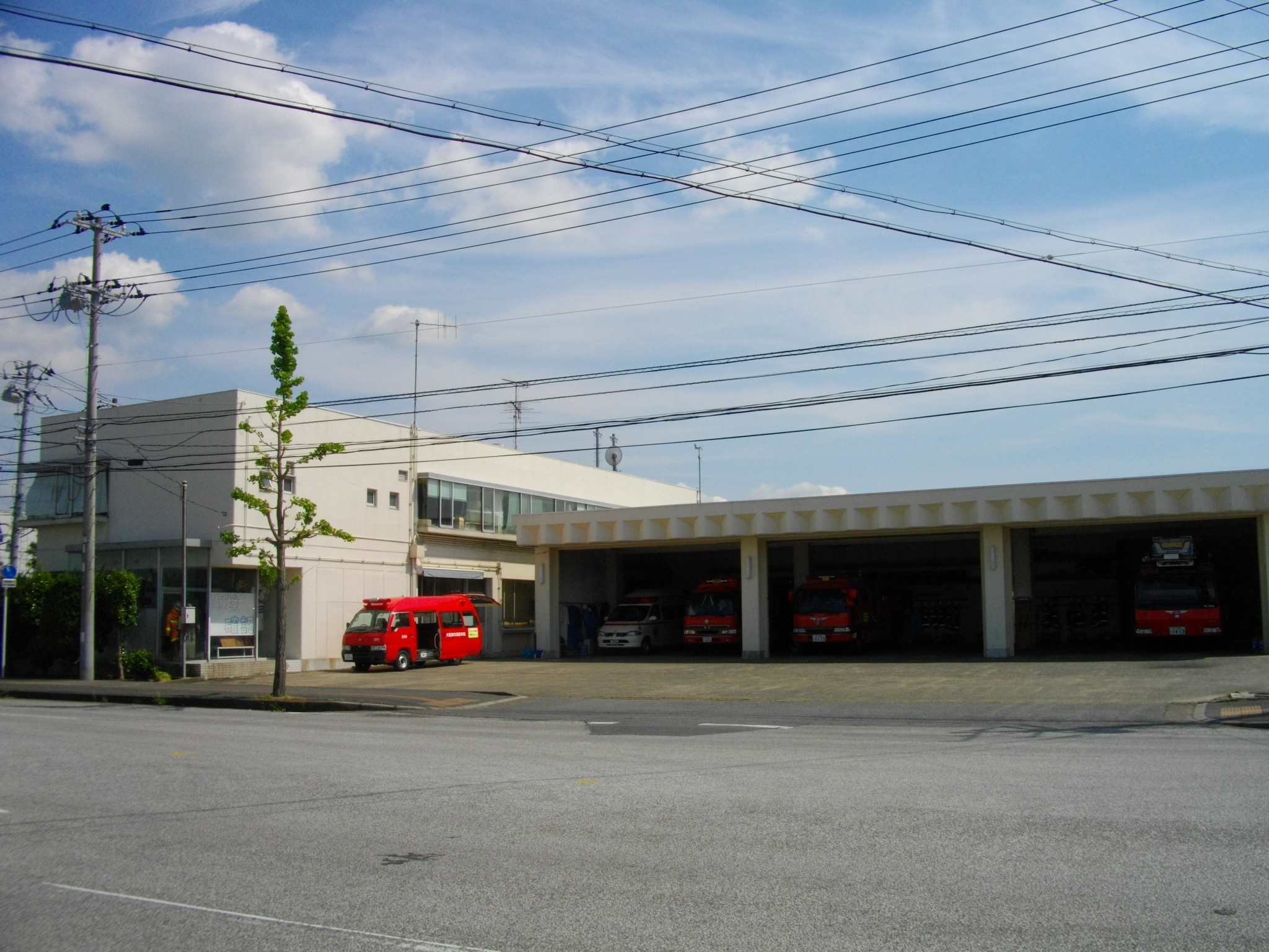 Kisarazu City Fire Department